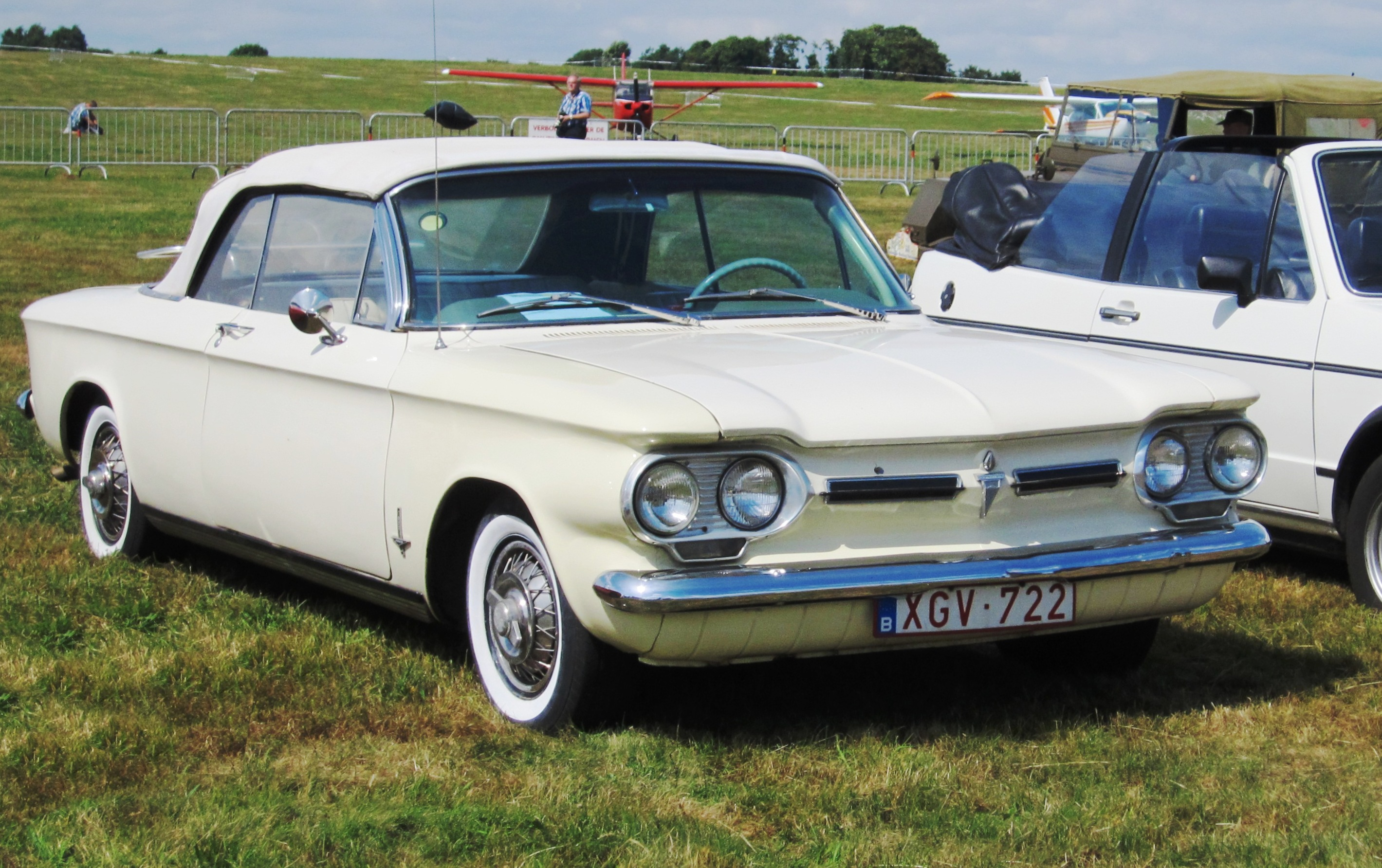 Chevrolet Corvair cabriolet